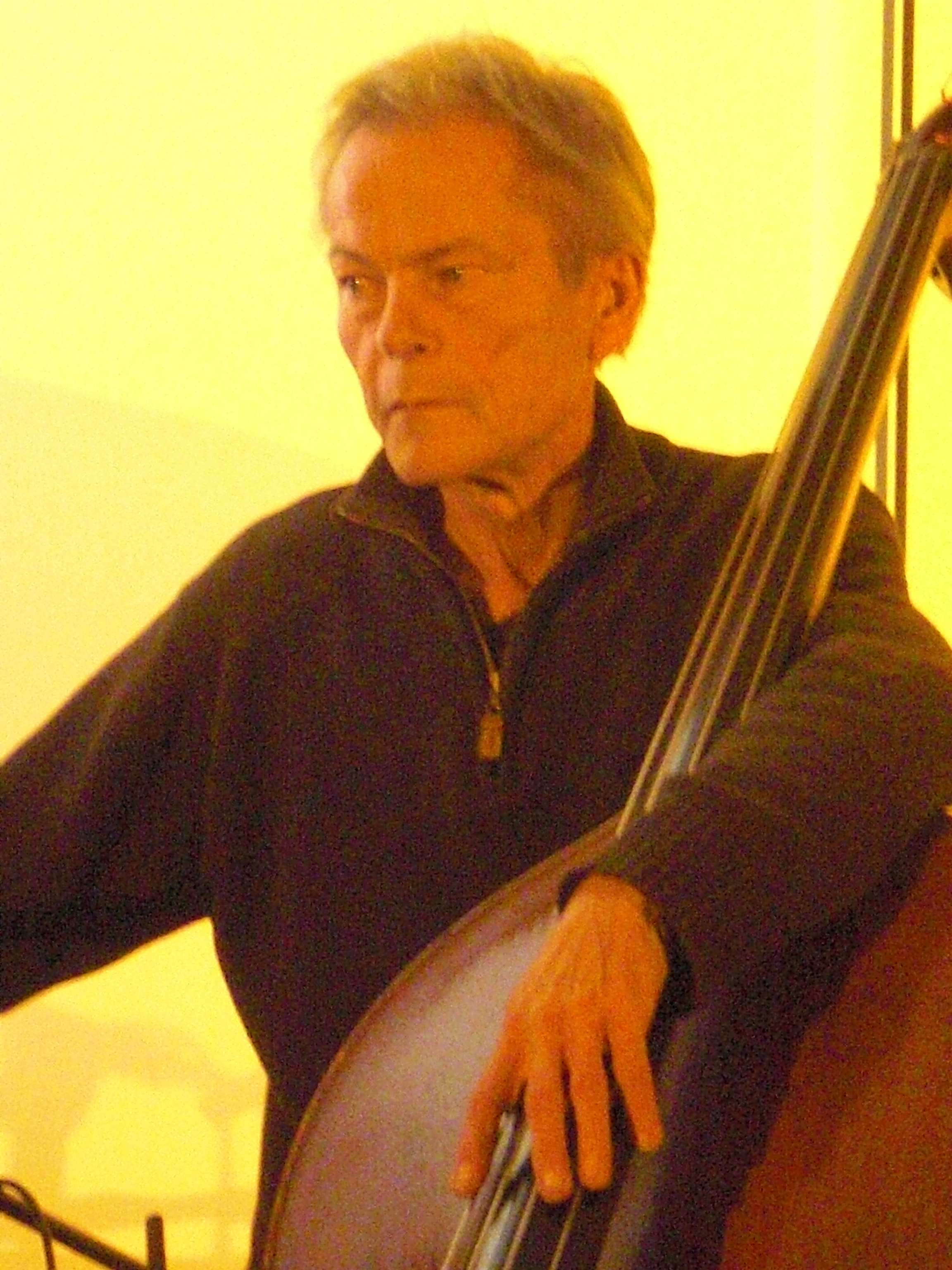 Jean-Jacques Avenel in concert with Benoit Delbecq Trio at Vive Le Jazz festival in Cologne, Germany, Oct 15th, 2011